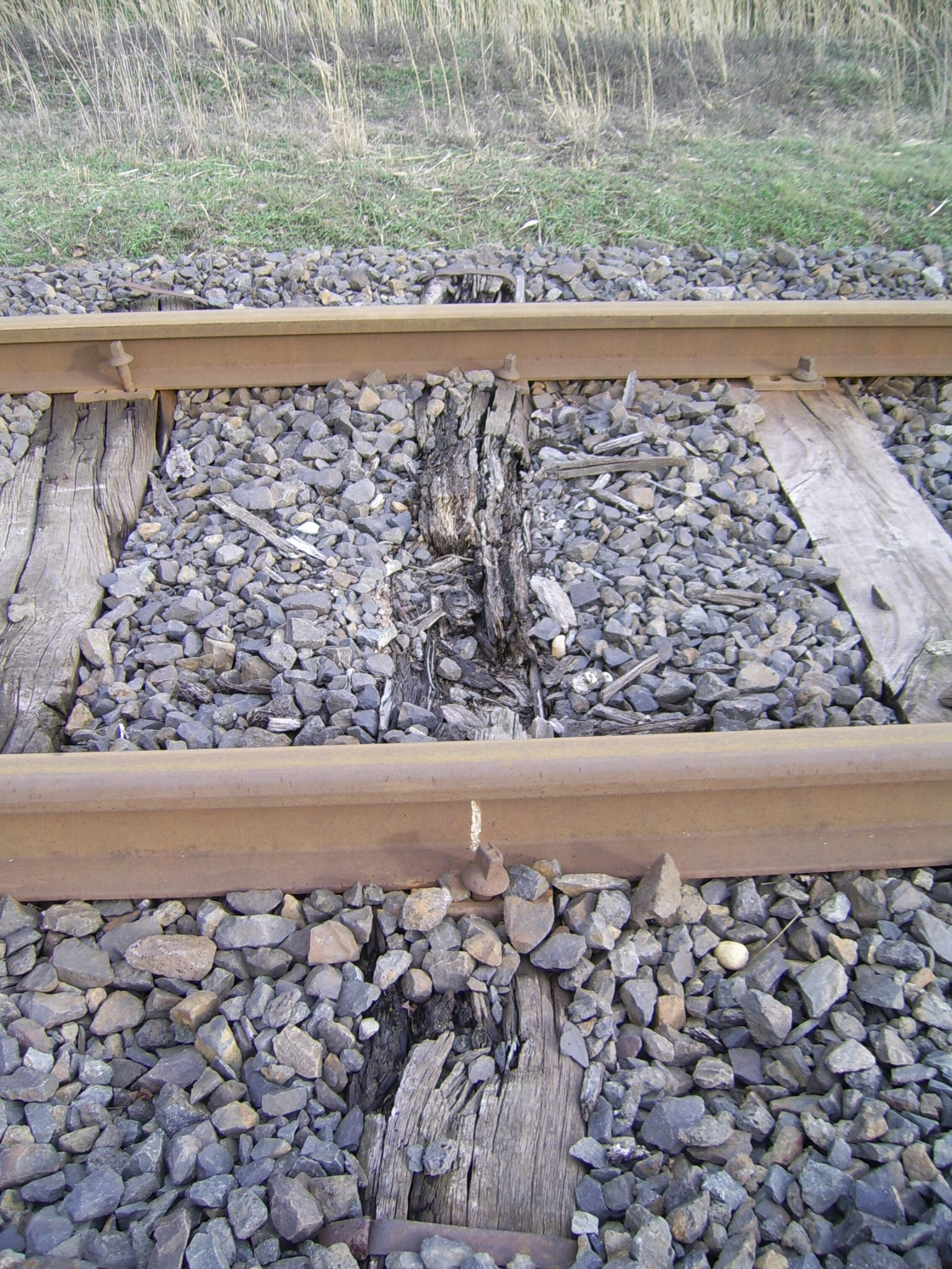 Outraged sleeper, detail of the Hódmezővásárhely-Makó railway line, near Földeák, Hungary